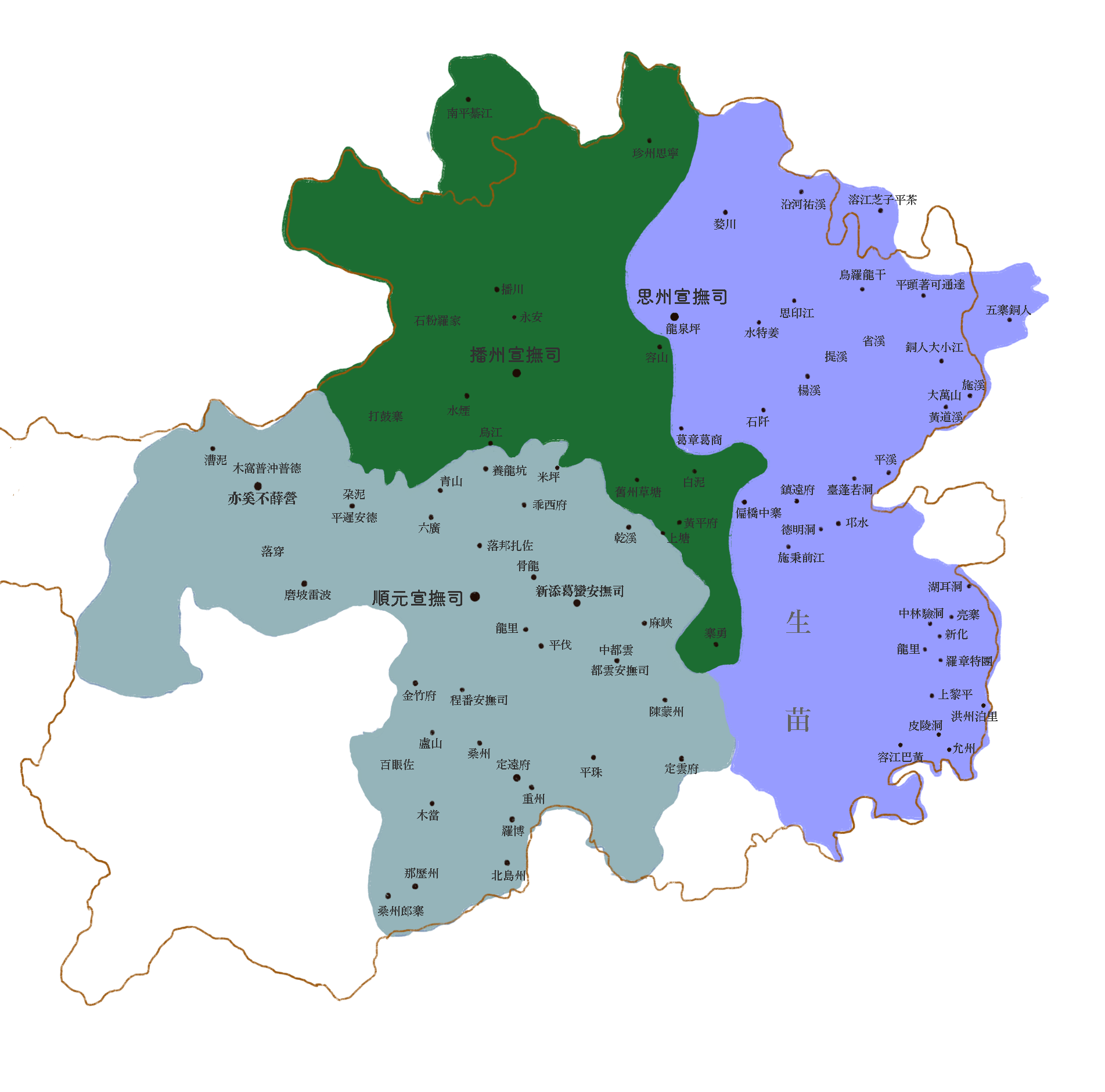 Four Tusi of Guizhou in Yuan Dynasty (the West of Huguang Province) Shuixi and Shuidong tusi both located in Shunyuan Xuanfusi (Guiyang City Now)